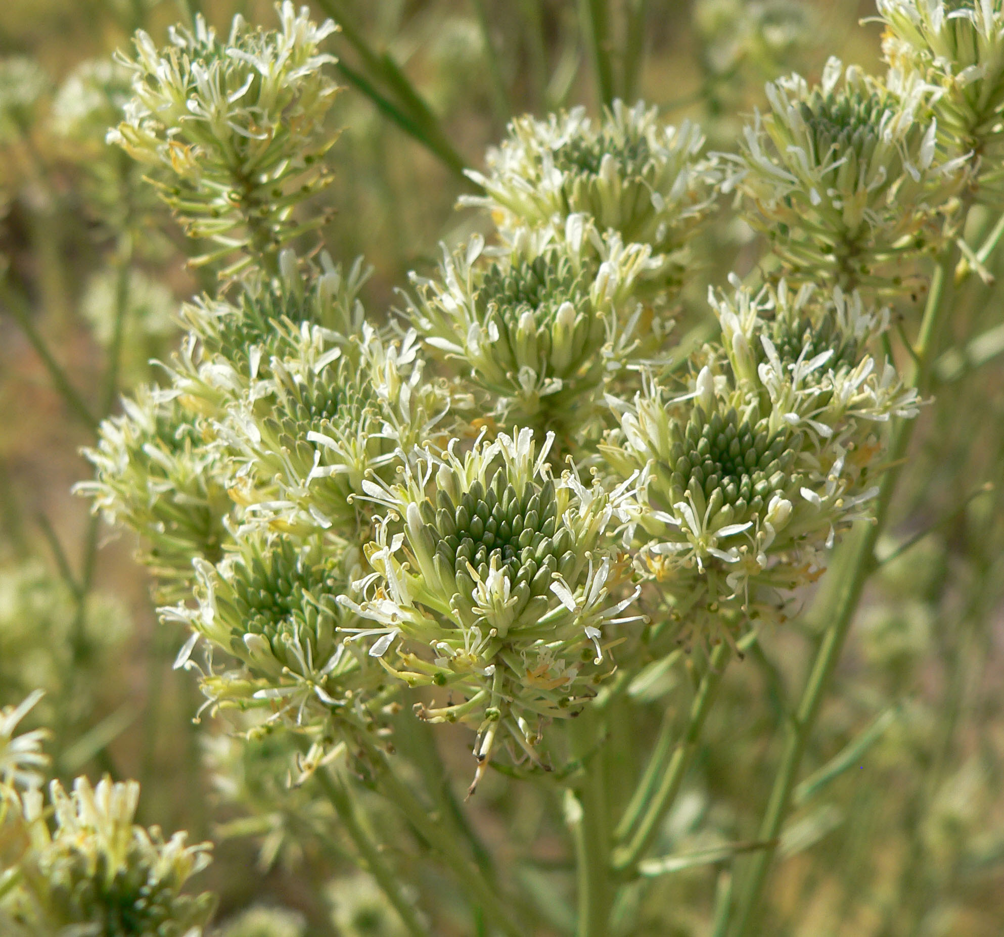 Thelypodium integrifolium subsp. affine at Red Spring, Calico Basin, Spring Mountains, southern Nevada (elev. about 1100 m)